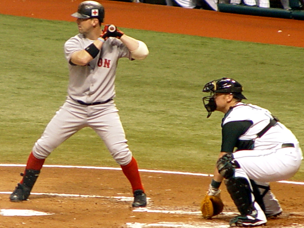 Trot Nixon at the plate, September 20, 2005. 21:45, 21 September 2005 . . Googie man . . 1000×750 (293 KB)